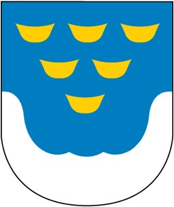 CoA of Gostyń, Silesia